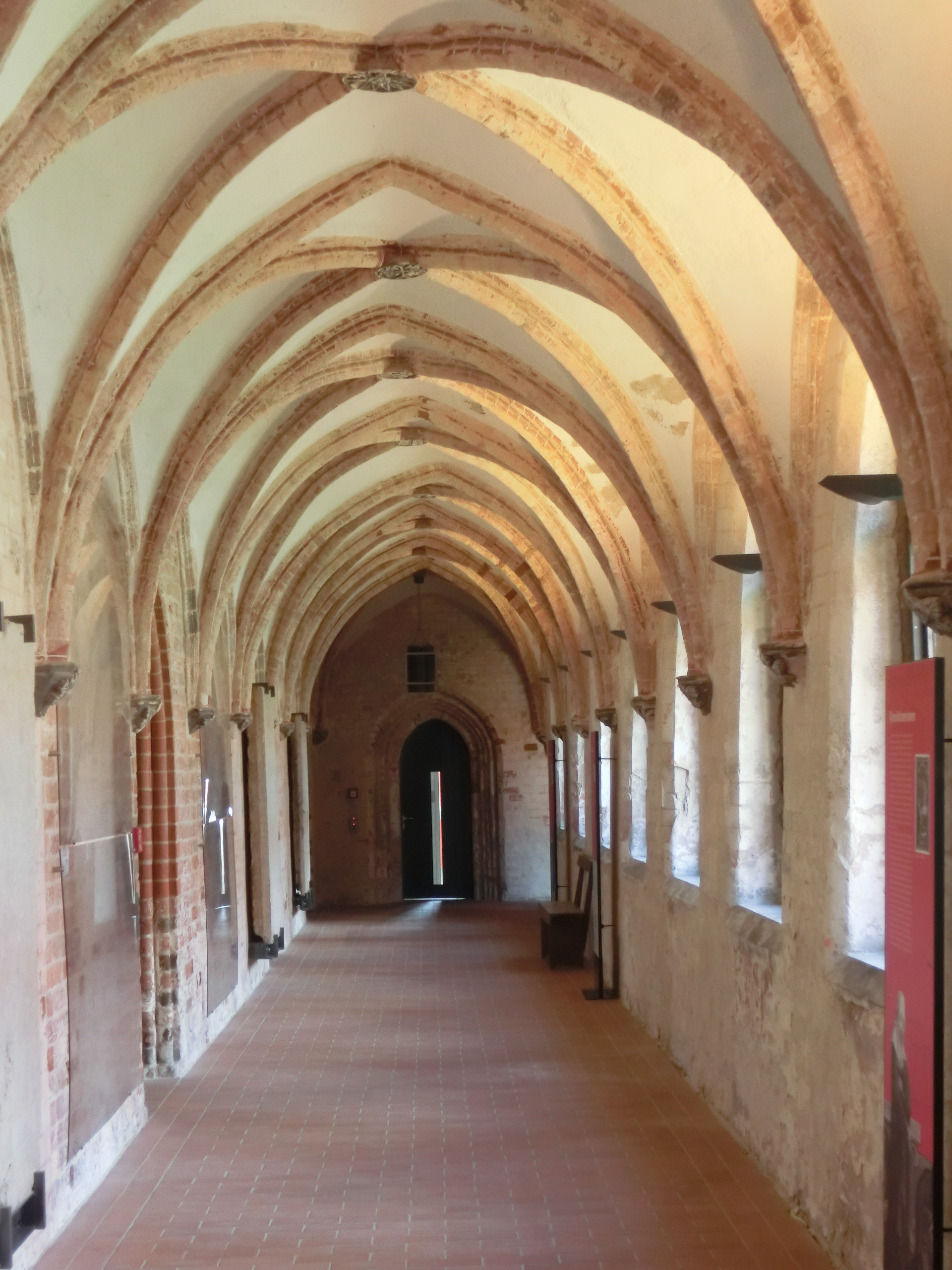 Dobbertin ( Mecklenburg ). Monastery: Cloisters (13th century)